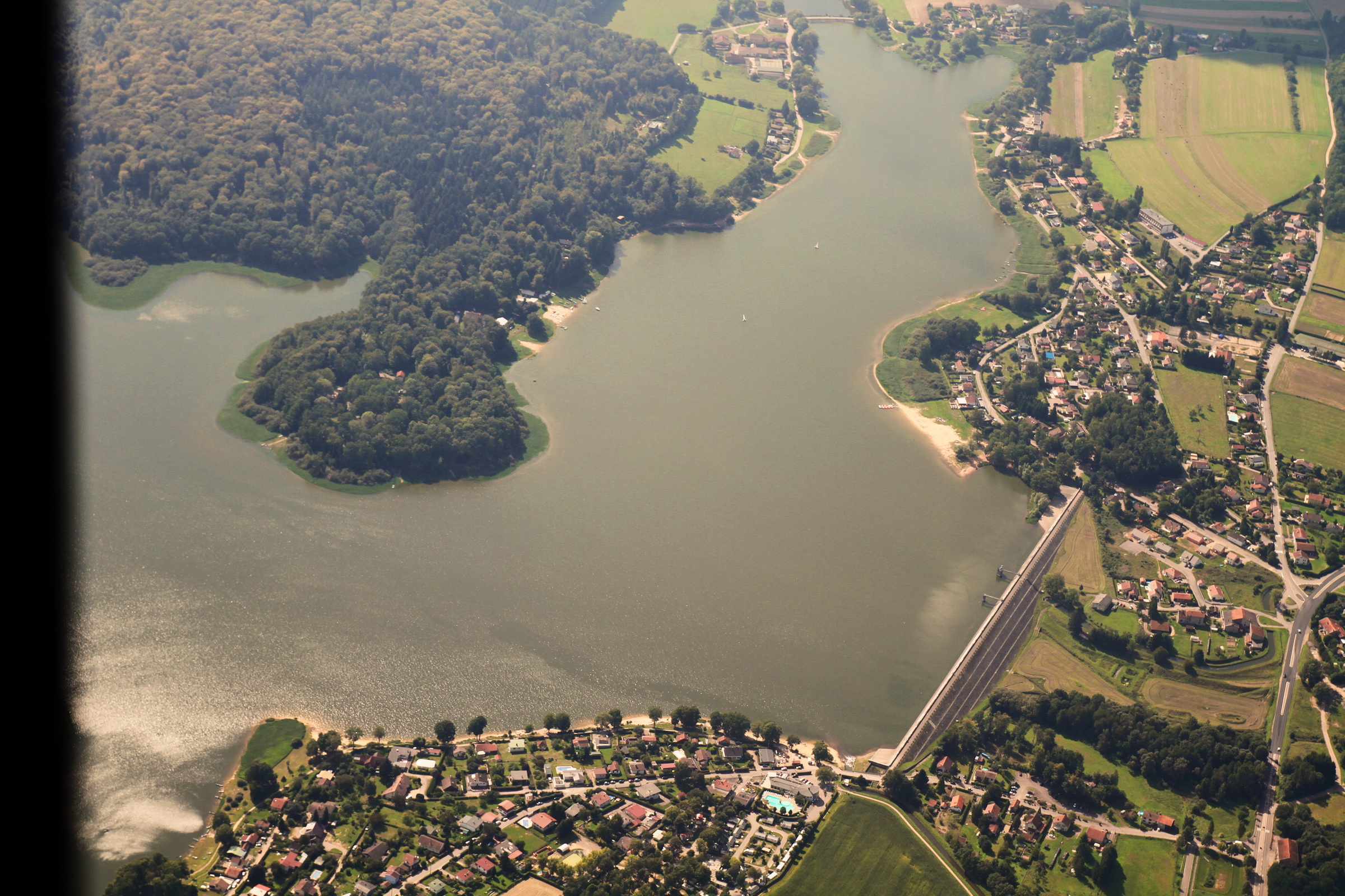 Lac de Bouzey (vue aérienne)